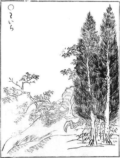 Waira (わいら, a large beast that lurks in the mountains) from the Gazu Hyakki Yakō (画図百鬼夜行)